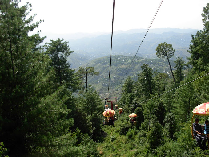 View from Murree Chairlift